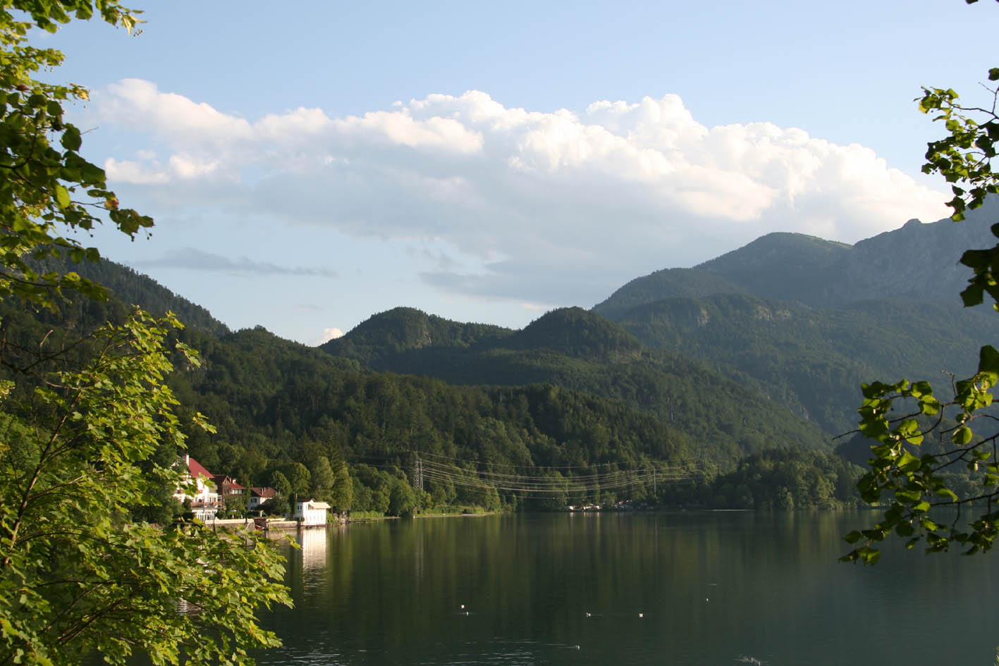 Kesselberg, mountain pass in the Bavarian Alps, near Kochel, Upper Bavaria